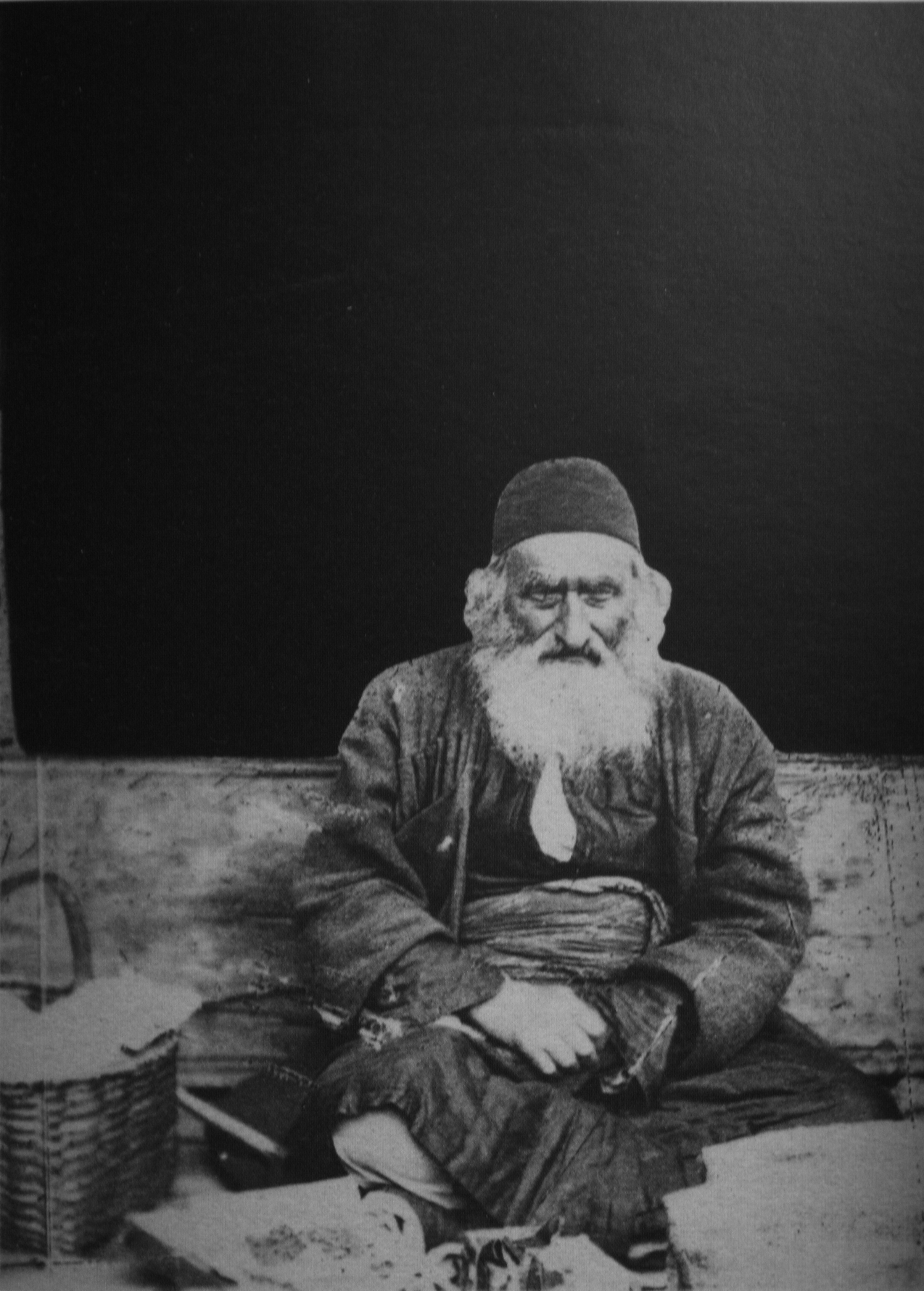 A jew, salesman of nuts.